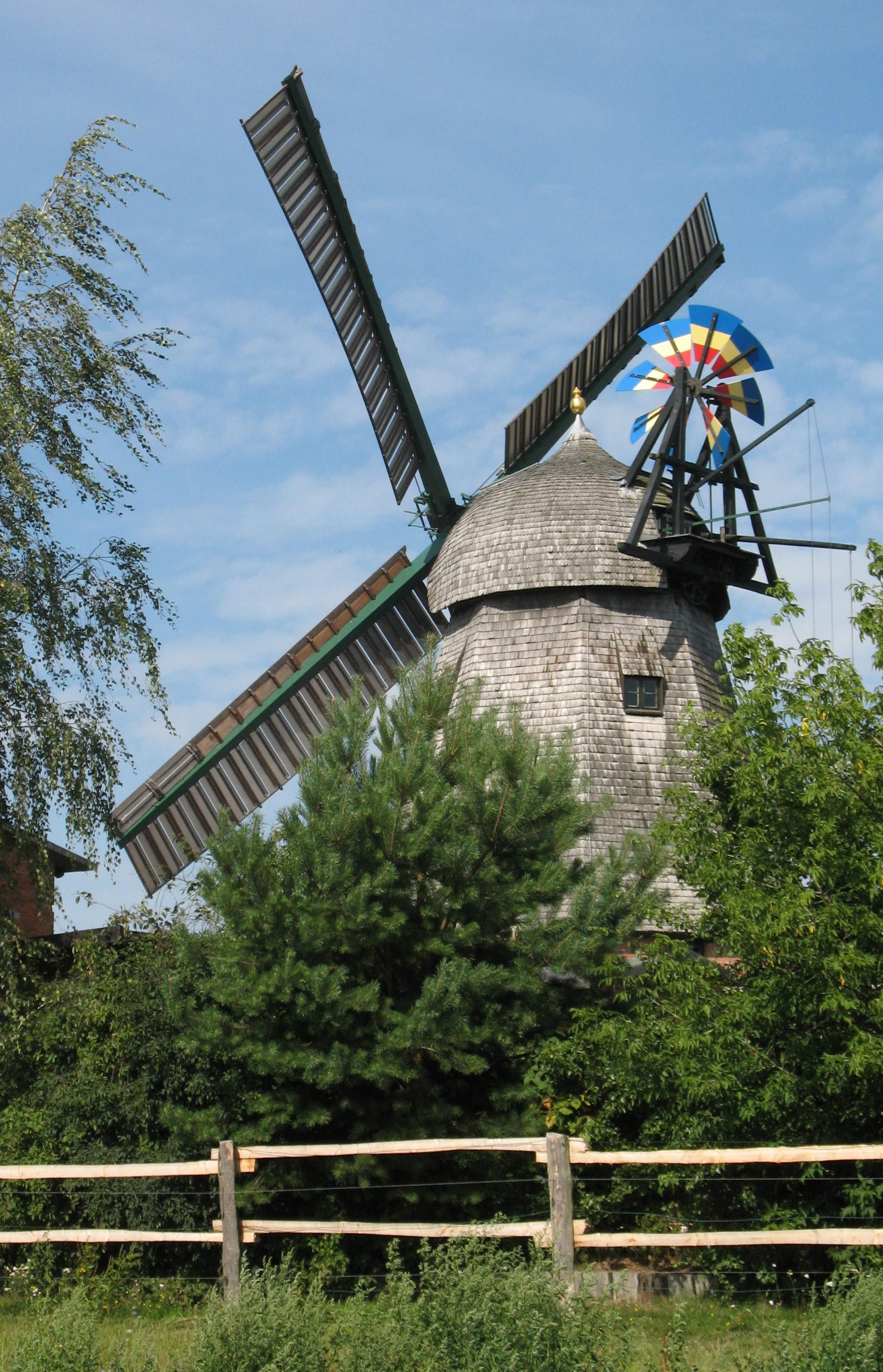 Windmill in Malchow in Mecklenburg-Western Pomerania, Germany